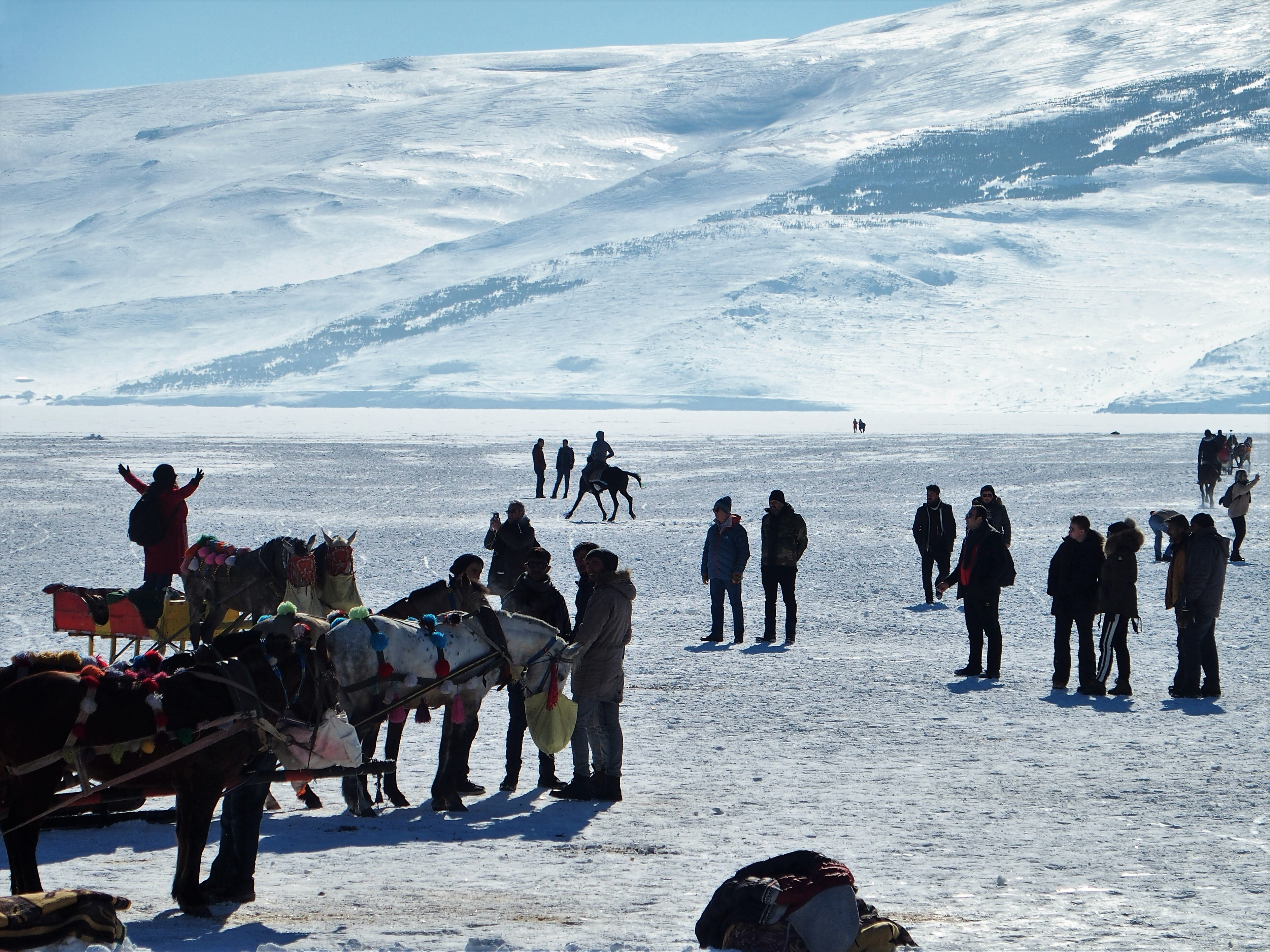 Cildir Lake in Kars region- Turkey freezes in wintertime